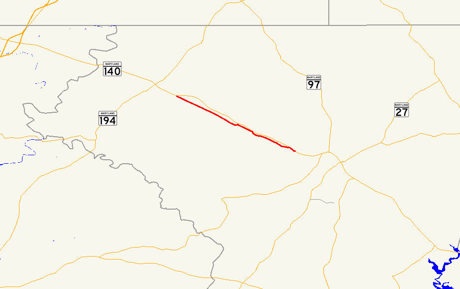 Map of Maryland Route 832